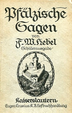 Friedrich Wilhelm Hebel, Buchcover, "Pfälzische Sagen", 1906